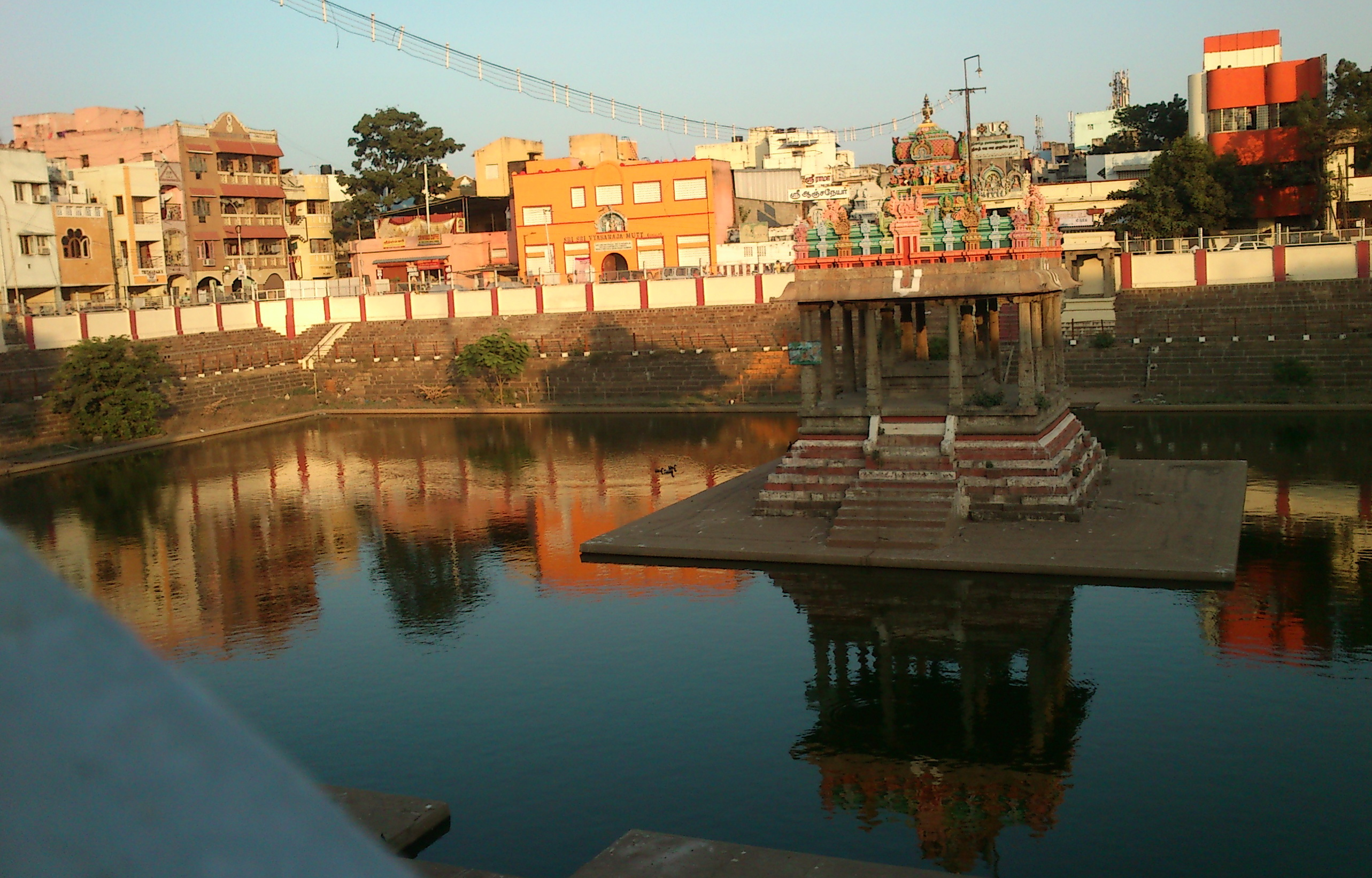 The Holy temple tank opposite to Sri Venkatakrishnan Temple commonly known as Sri Parthasarathi Temple situated in Thiruvallikeni, Chennai, India. It is hundreds of years old.